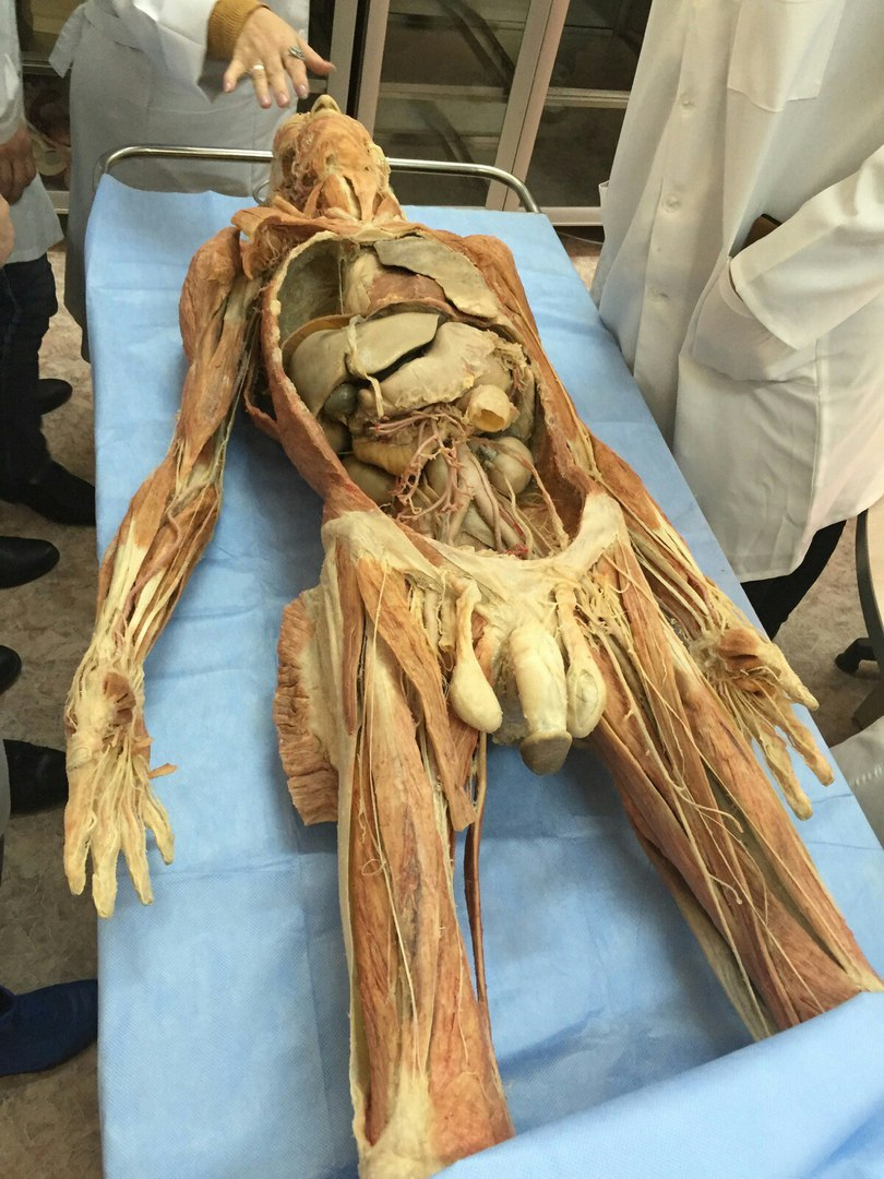 It is the inner part of human body.